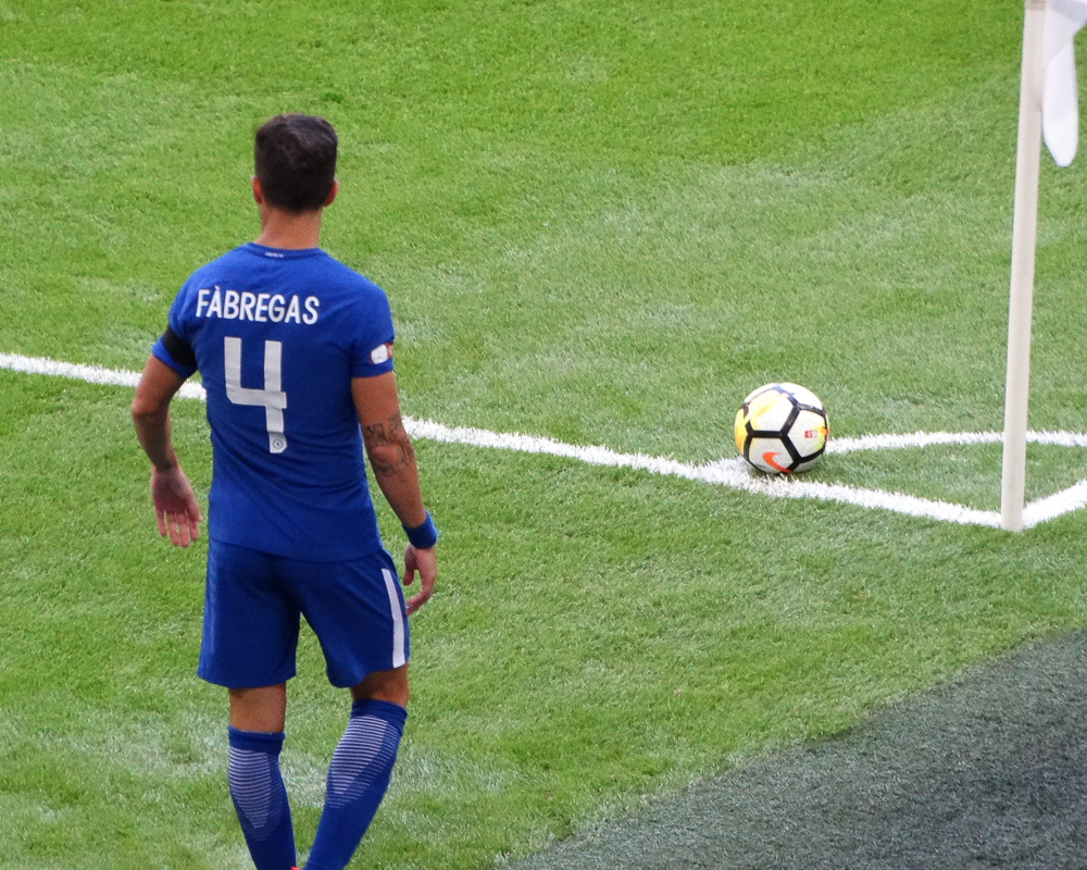 Community Shield at Wembley 6.8.17